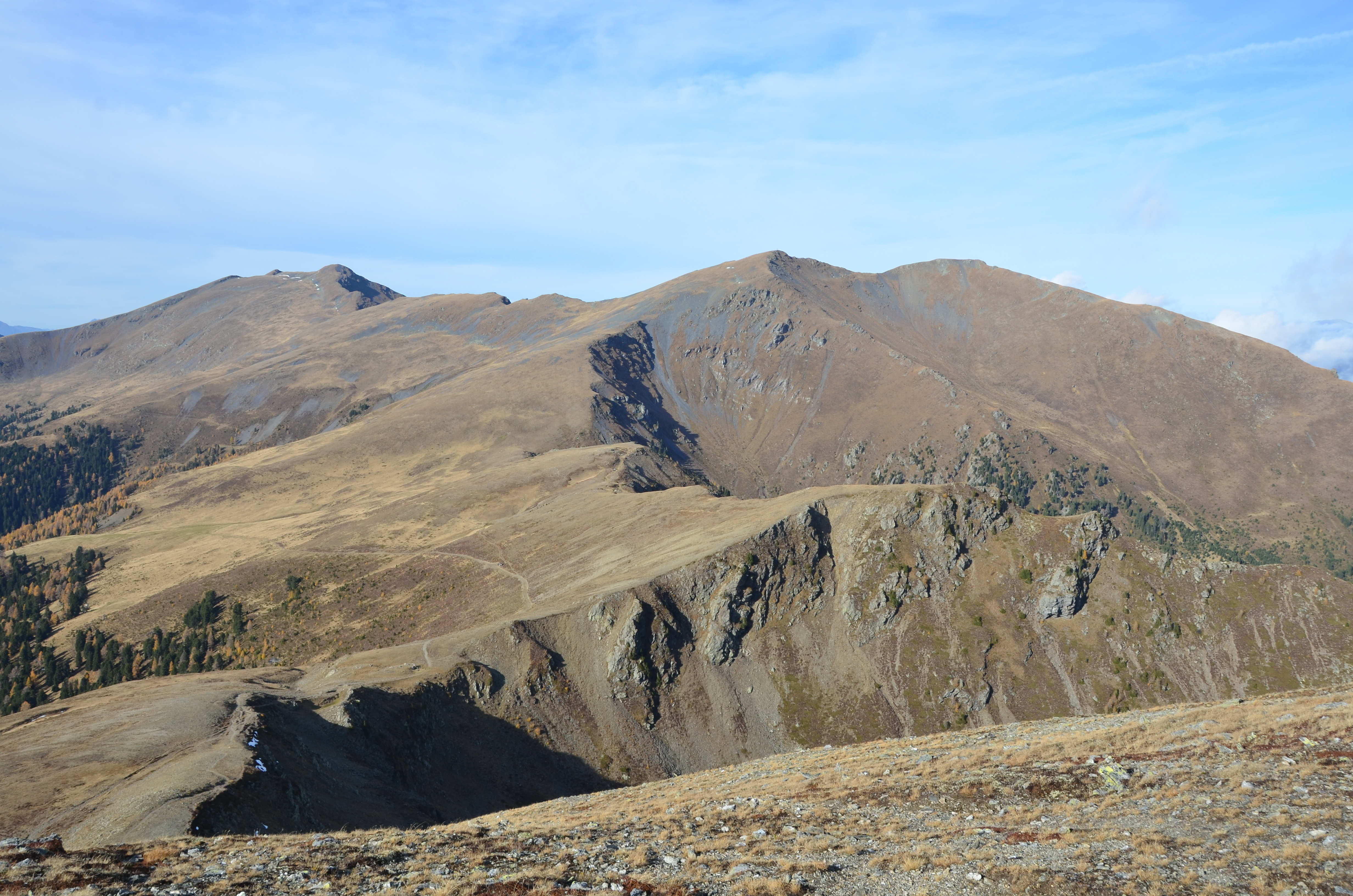 View from the Lattersteighoehe (2264 m) at the mountains Eisenhut (2441 m) and Wintertalernock (2394 m), part of the Nockberge at Turrach, municipality Predlitz-Turrach, district Murau, Styria / Austria / EU